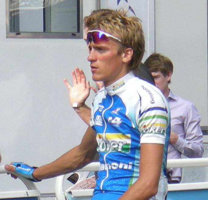 Frederik Wilmann at 2009 Tour of Britain